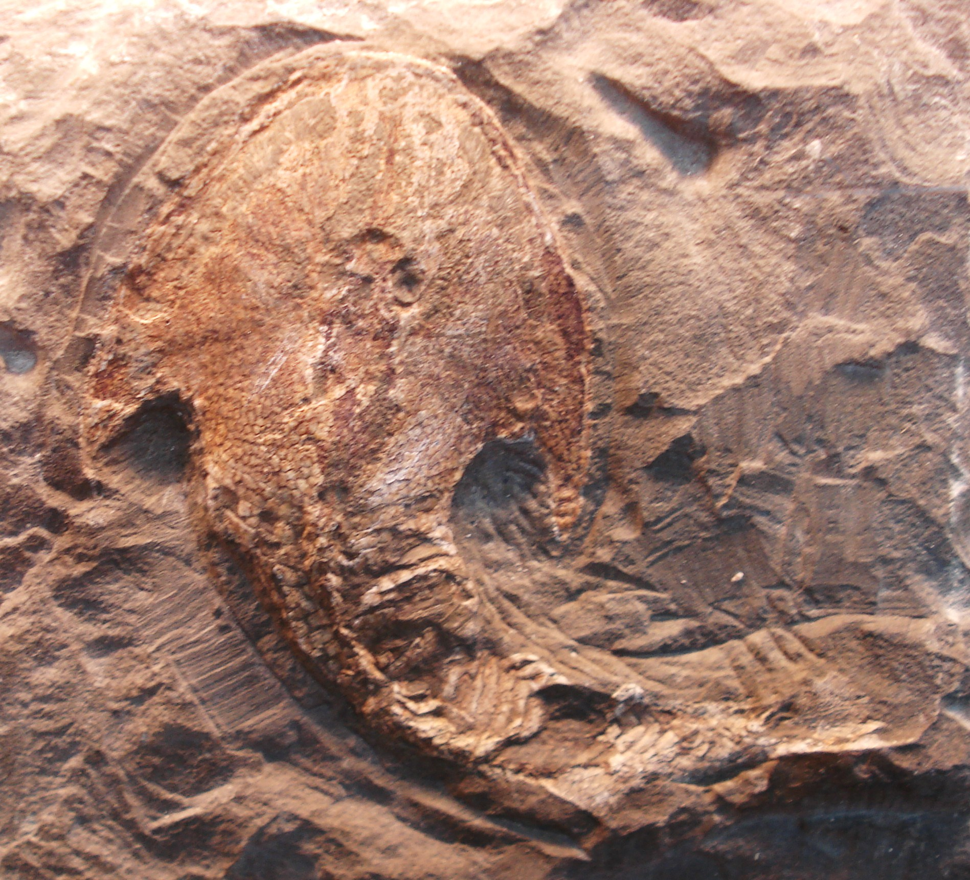 fossil of hemicyclaspis